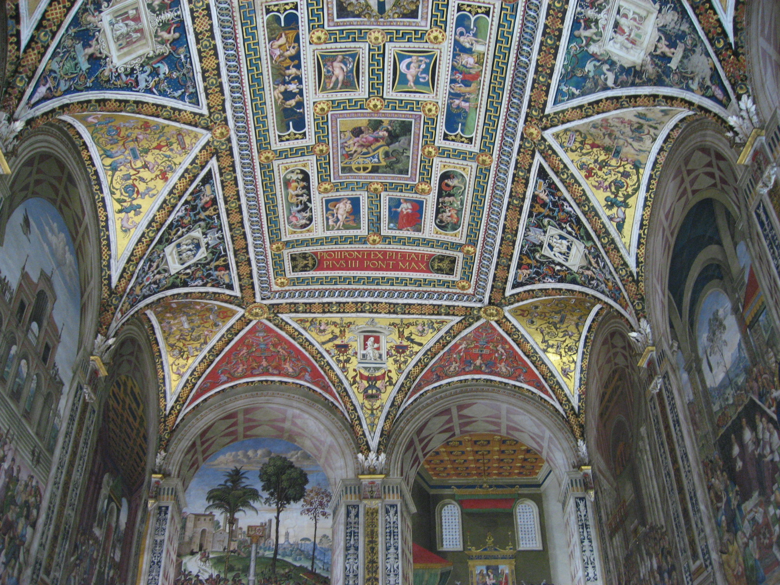 Piccolomini Library in Siena Cathedral